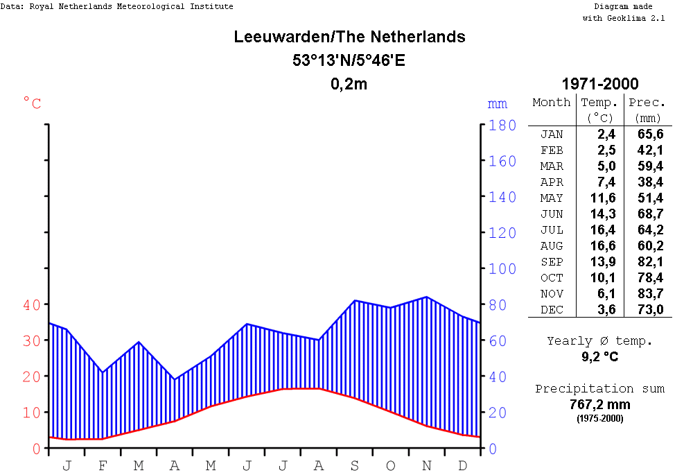 climate chart of Leeuwarden, the Netherlands, for the period of time from 1971 to 2000, in the format by Walter and Lieth, metric, °Celsius and millimeters, chart made with Geoklima 2.1, label in English